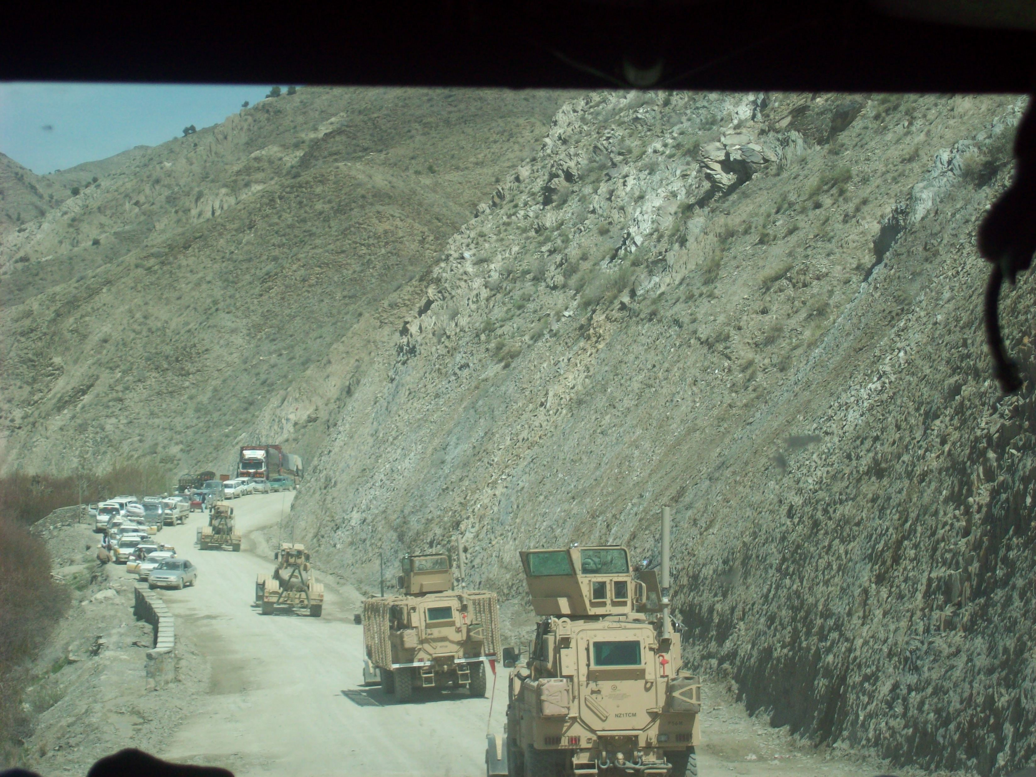 US Sapper forces of the Michigan National Guard clearing the Khost-Gardez pass, Husky mine detector vehicles seen at the front of the convoy, 2009.